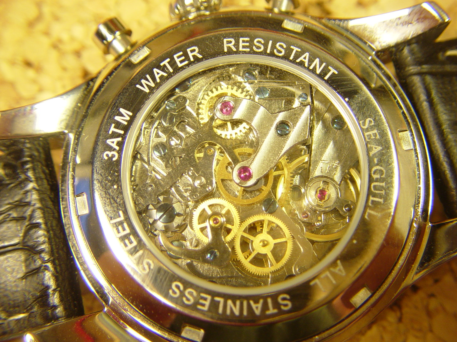 Seagull Chronograph movement